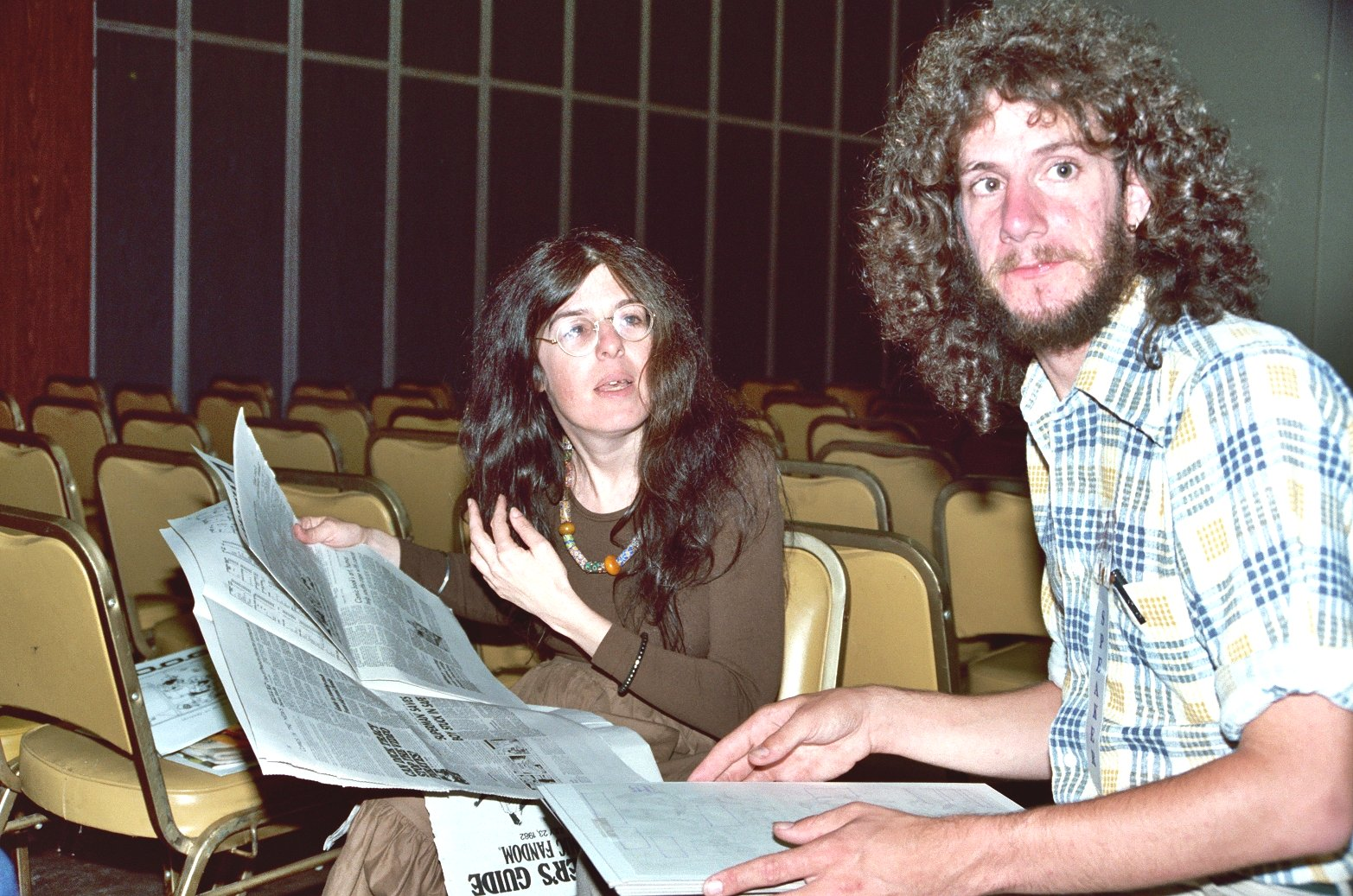 1982 San Diego Comic-Con International. Scanned from the original 35MM film negative. NOTE: Permission granted to copy, publish, broadcast or post any of my photos, but please credit "photo by Alan Light" if you can. Thanks.